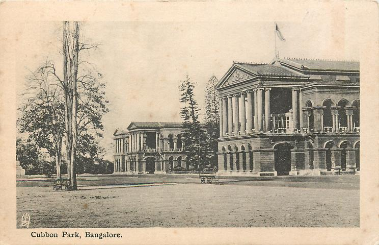 Attara Katcheri, Bangalore (Early 1900s), Tucks Post Card